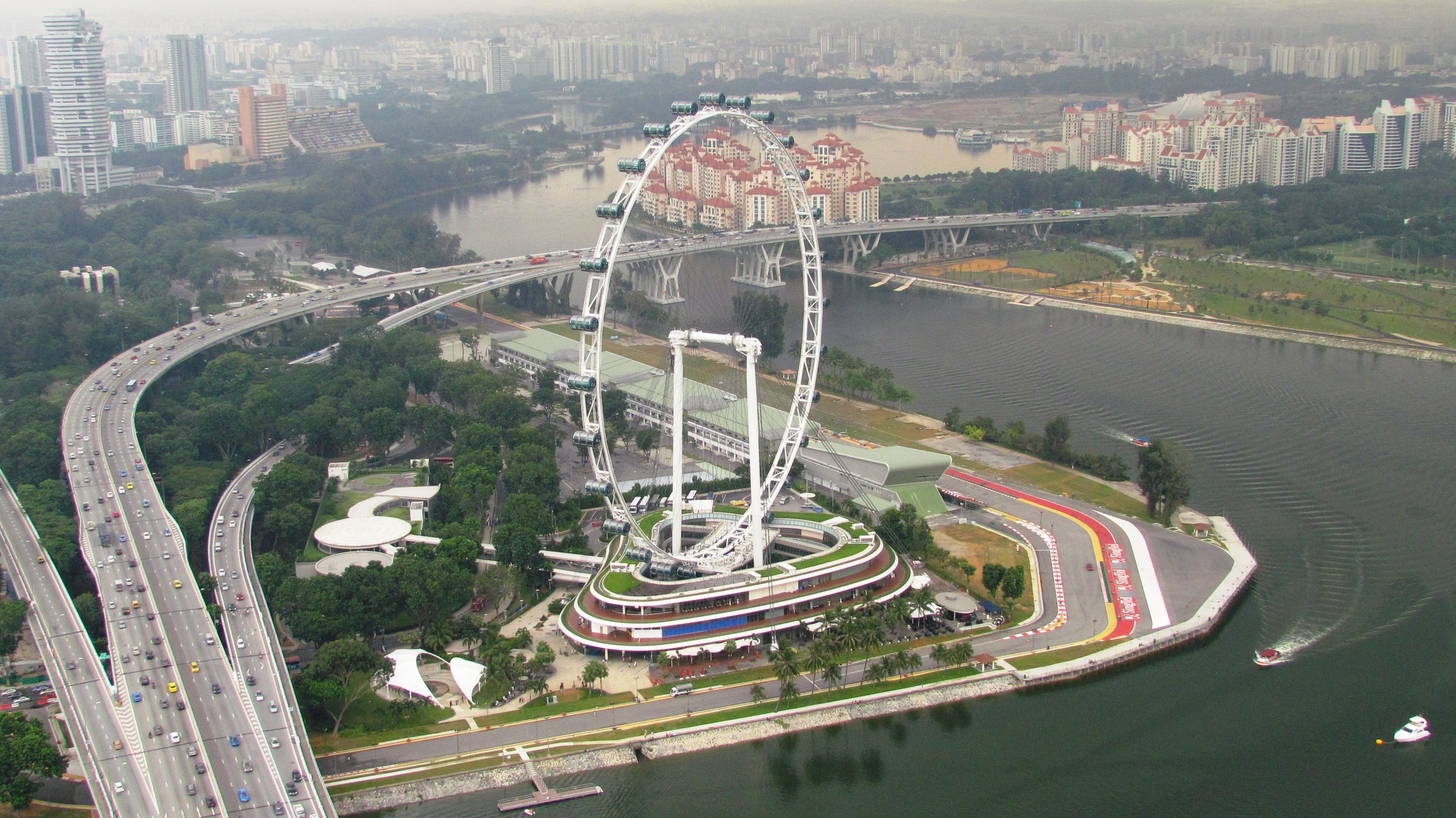 Singapore Flyer